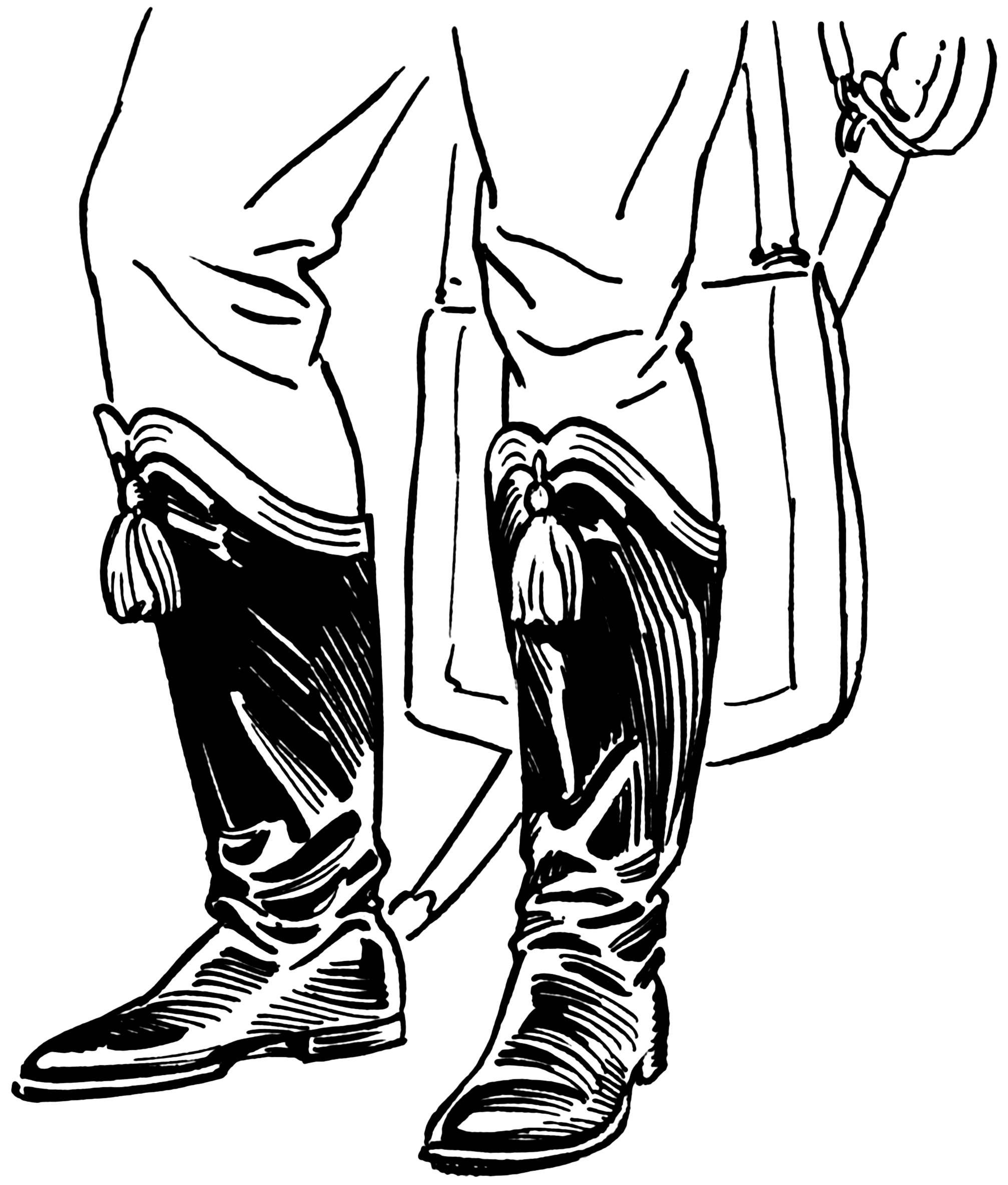 Line art of hessian boots.